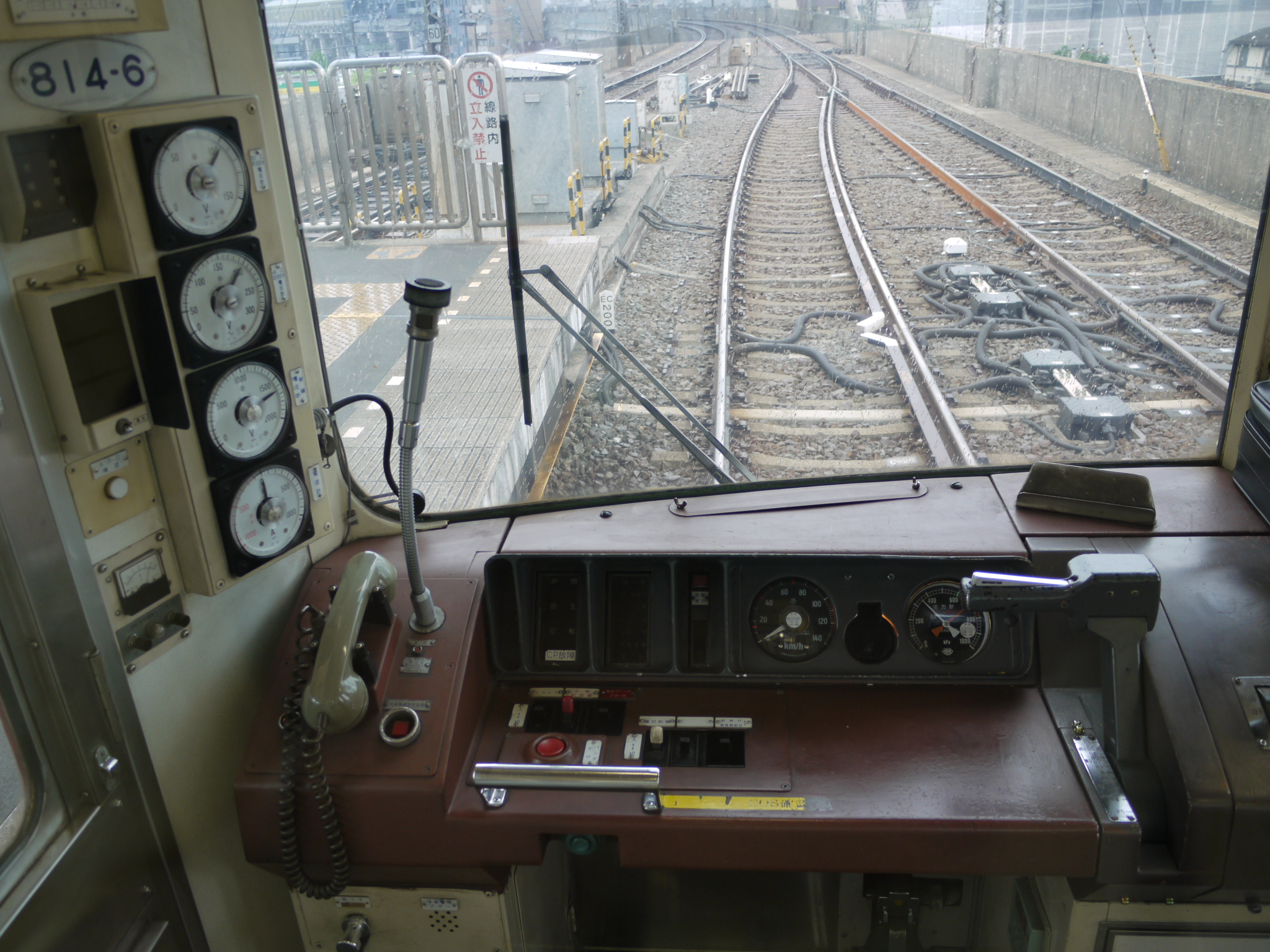 Driver's cab Keikyu 814-6